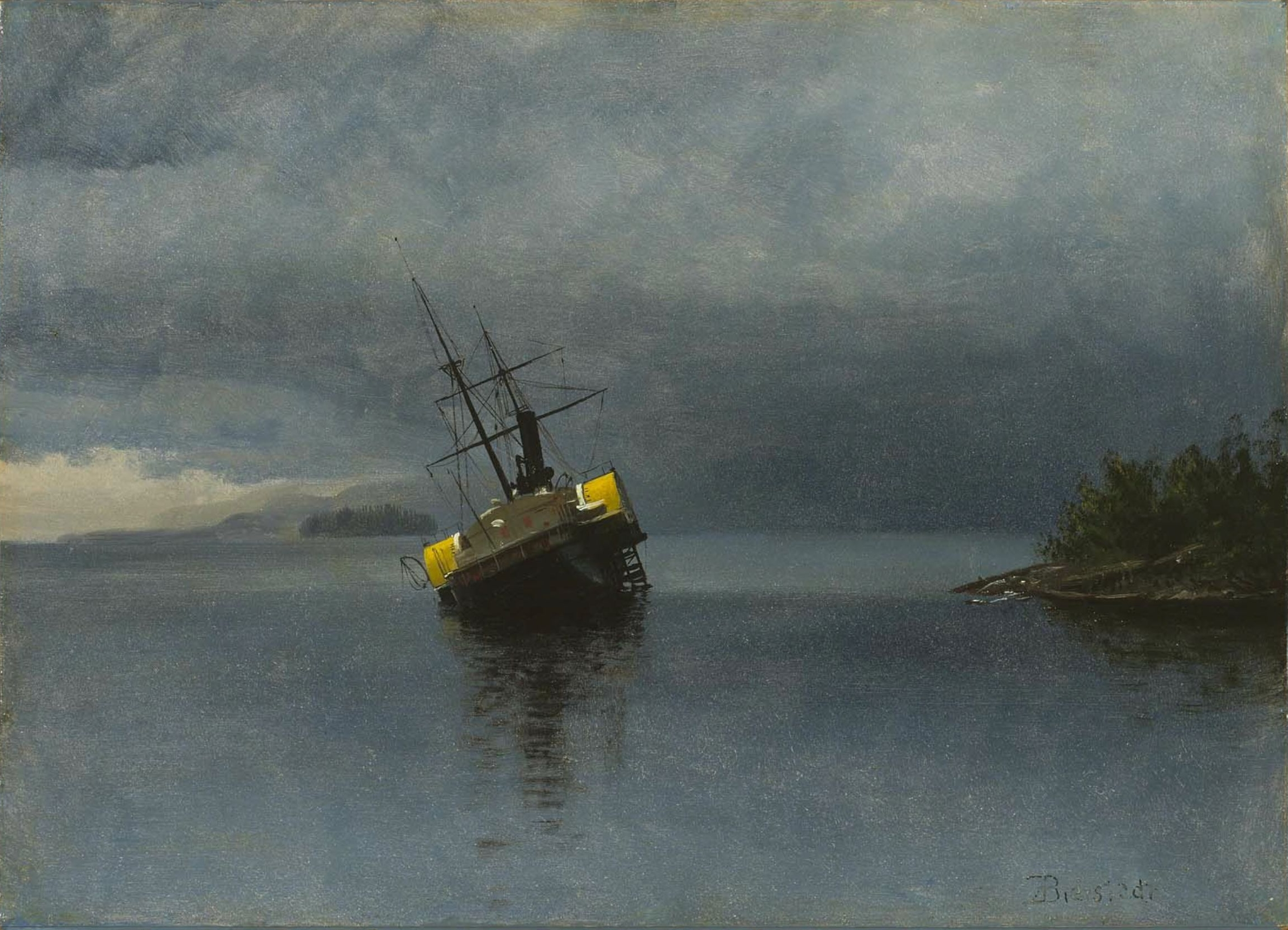 For a description of the events, see [1]